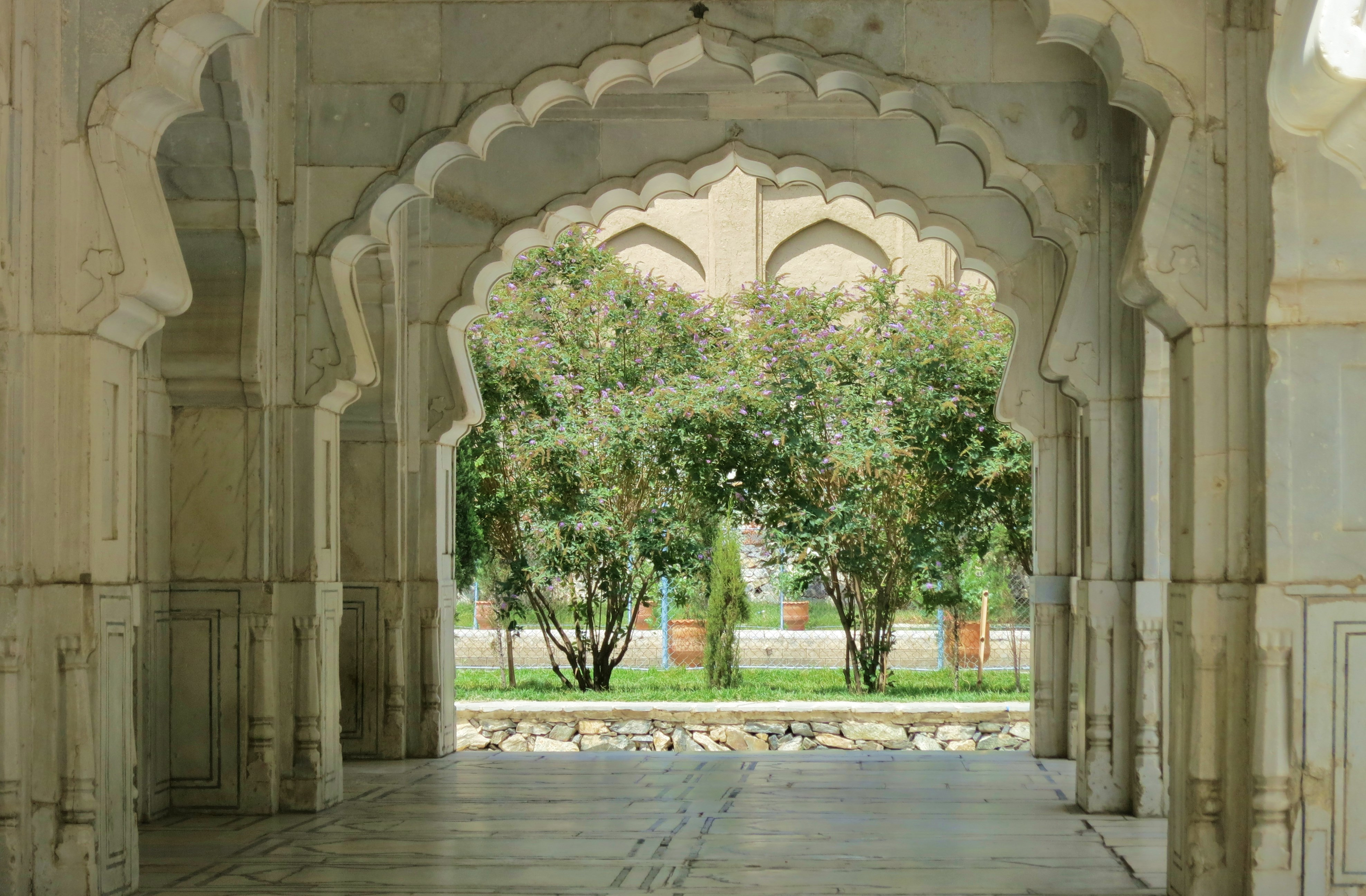 Mosque inside Bagh-e Babur in Kabul, Afghanistan